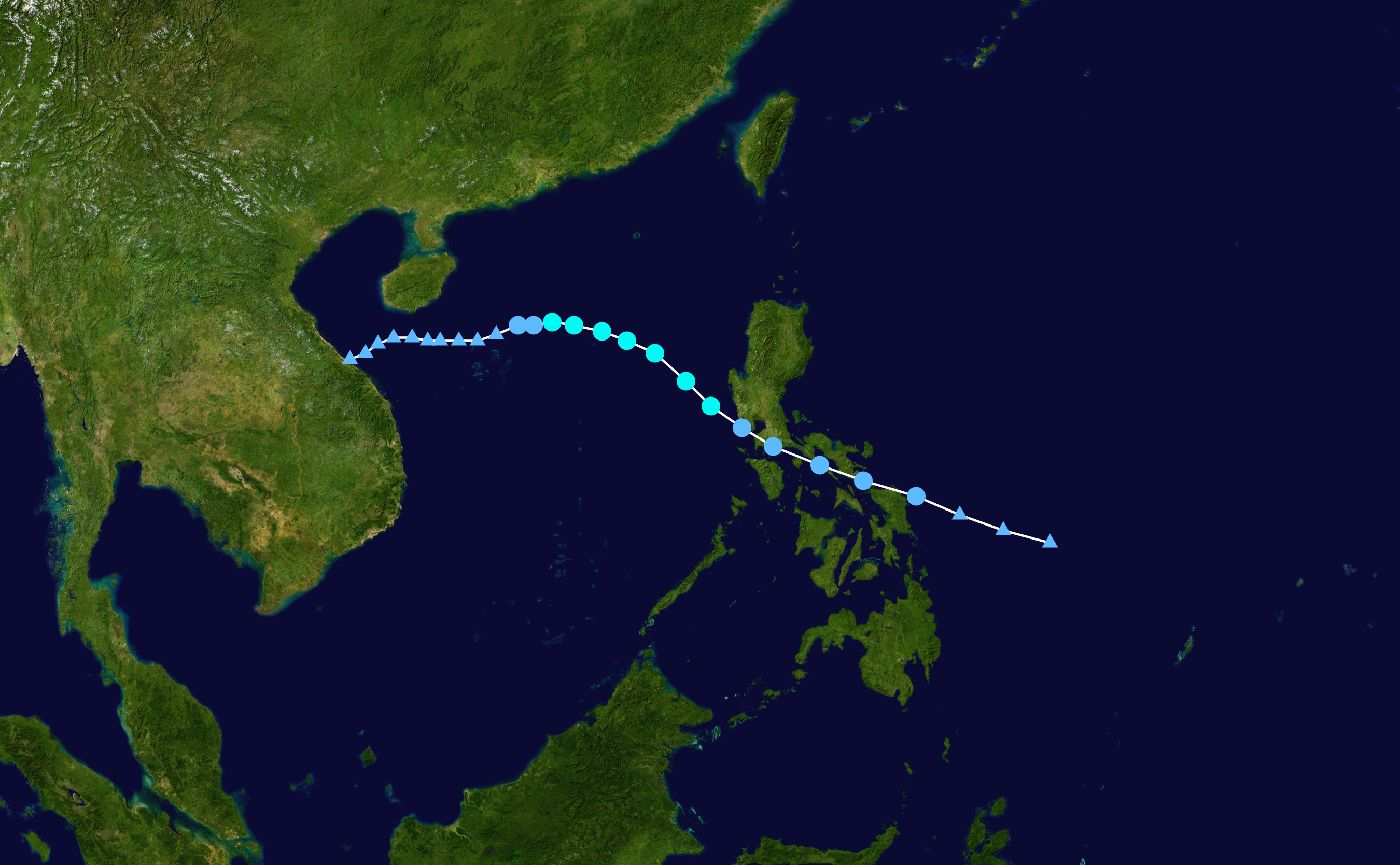 Track map of Tropical Storm Haikui of the 2017 Pacific typhoon season. The points show the location of the storm at 6-hour intervals. The colour represents the storm's maximum sustained wind speeds as classified in the Saffir–Simpson scale (see below), and the shape of the data points represent the nature of the storm, according to the legend below. Saffir–Simpson scale Tropical depression≤38 mph≤62 km/h Category 3111–129 mph178–208 km/h Tropical storm39–73 mph63–118 km/h Category 4130–156 mph209–251 km/h Category 174–95 mph119–153 km/h Category 5≥157 mph≥252 km/h Category 296–110 mph154–177 km/h Unknown Storm type Tropical cyclone Subtropical cyclone Extratropical cyclone / Remnant low / Tropical disturbance / Monsoon depression